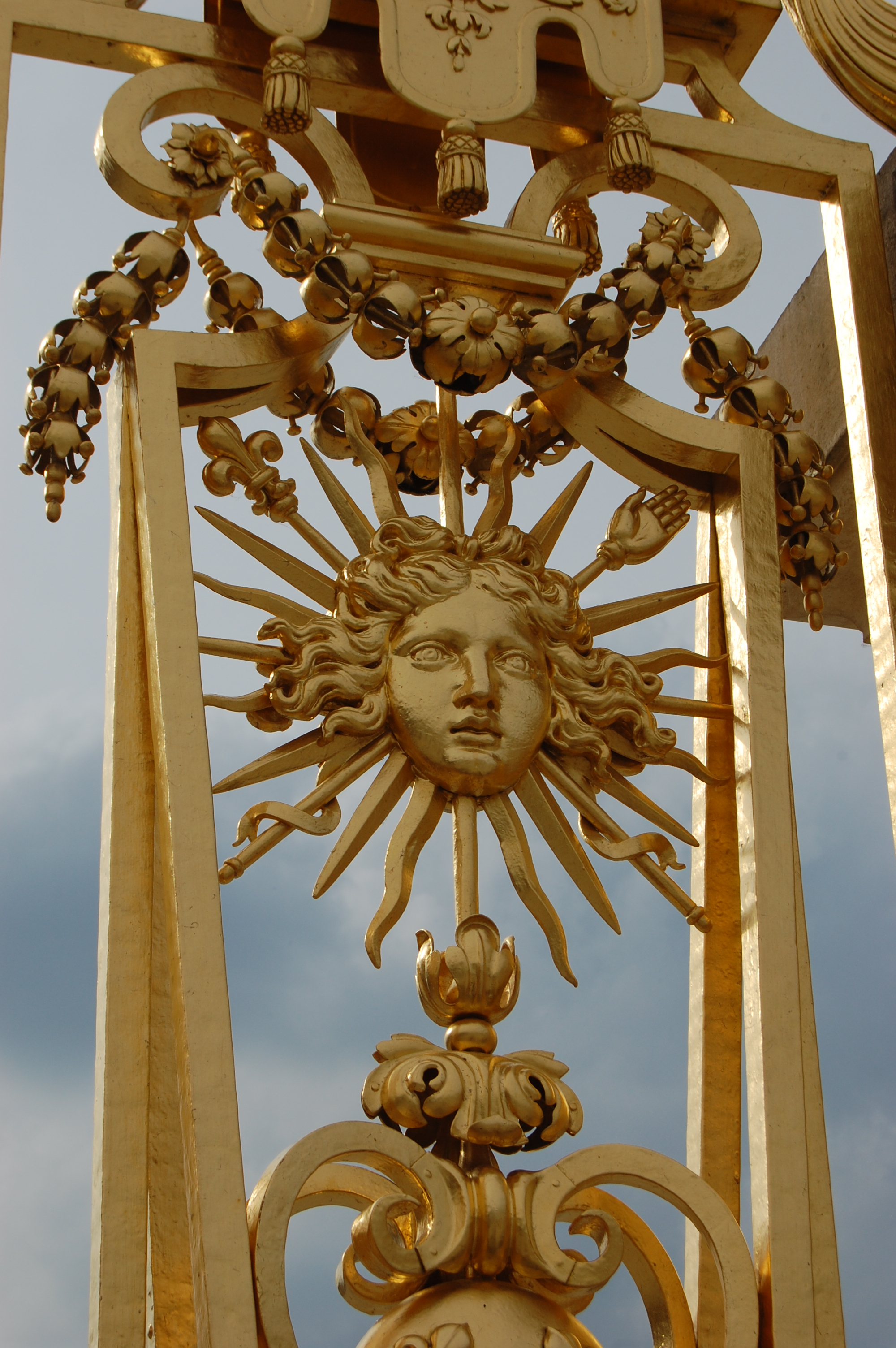 Grille royale, Palace of Versailles